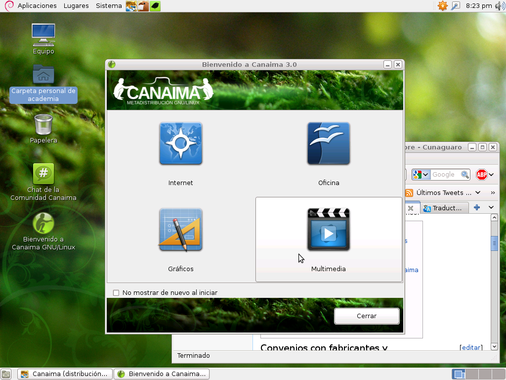 Canaima_gnulinux_3.0.png